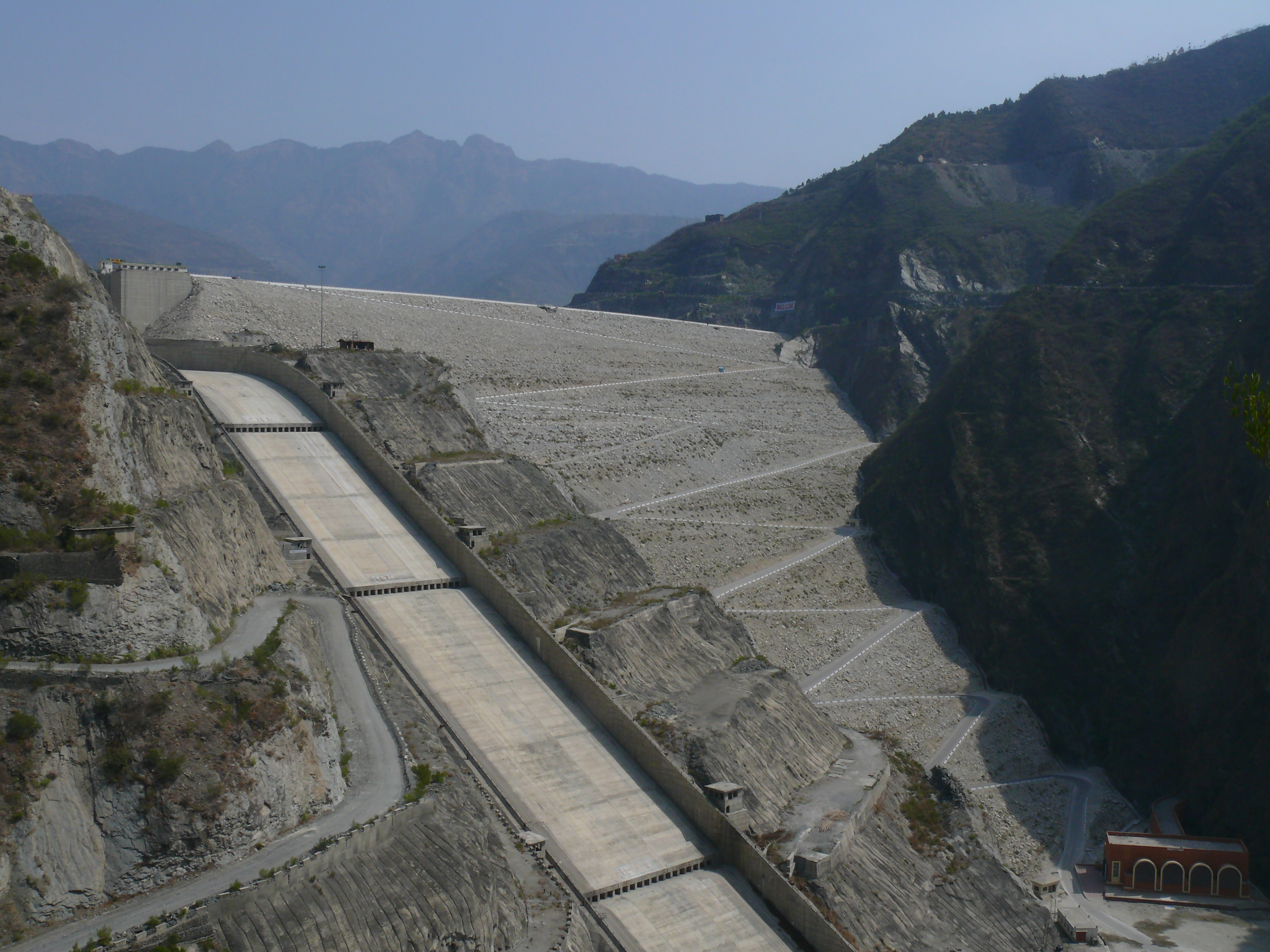 The Tehri Dam on the Bhagirathi River in the Garhwal Himalayas is the only major dam in the Ganges basin, and one of the largest dams in the world. Uploaded by Fowler&fowler (talk) 20:51, 9 September 2012 (UTC)